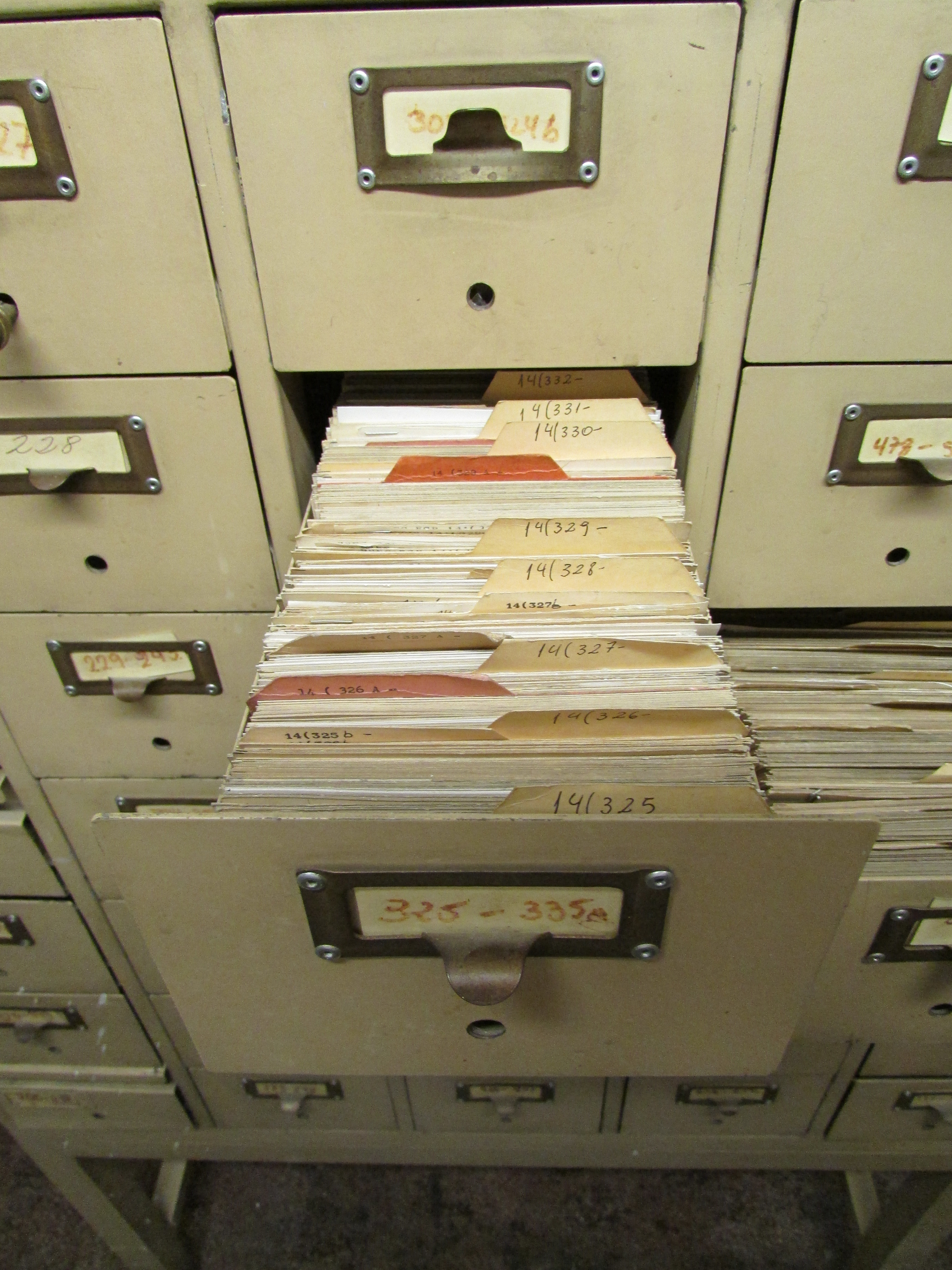 Fondo General (General Fund) interior where shelves and volumes to be lend in the "Sala Gabriela Mistral" (Gabriela Mistral Room) are located. This is a photo of a national monument in Chile: 102